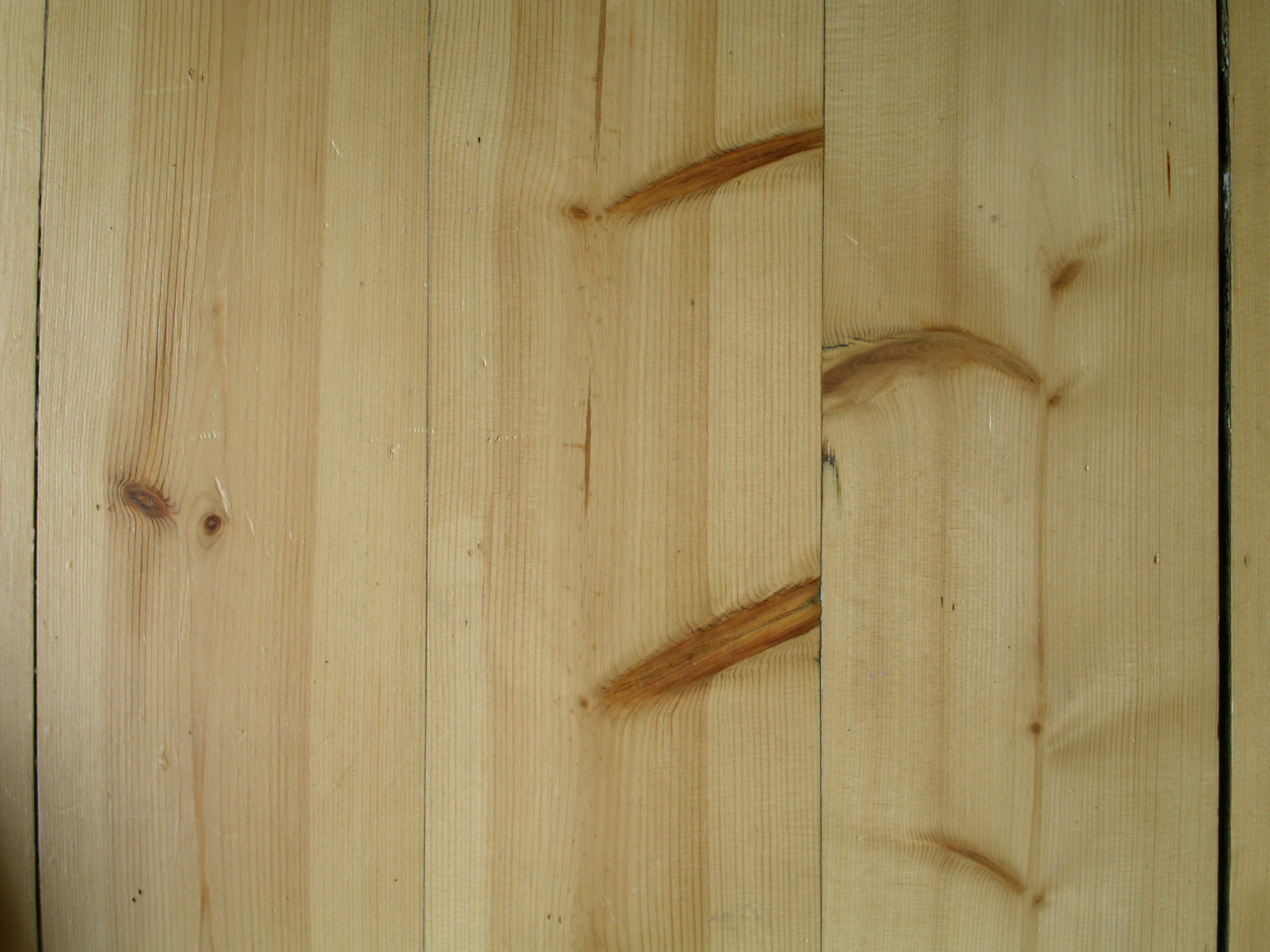 The two boards to the left are both of Pine tree wood (Pinus sylvestris) , and the one to the right is of spruce wood (Picea abies) . Typical differences are: 1. Pine has reddish hart wood and light sape wood and a rather distinct border between. 2. The knots in pine wood usually have stronger contrast than those of spruces, which use to be more "soft" colored. 3. In the spruce-wood, but never in the pine wood, there may be spread out small single knots (not shown in this photo). The picture is a detail from a floor and the width of each board is 11 cm.